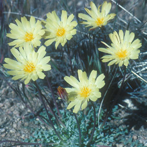 Anisocoma acaulis or scale bud flower found in the Mojave and Colorado deserts of North America.